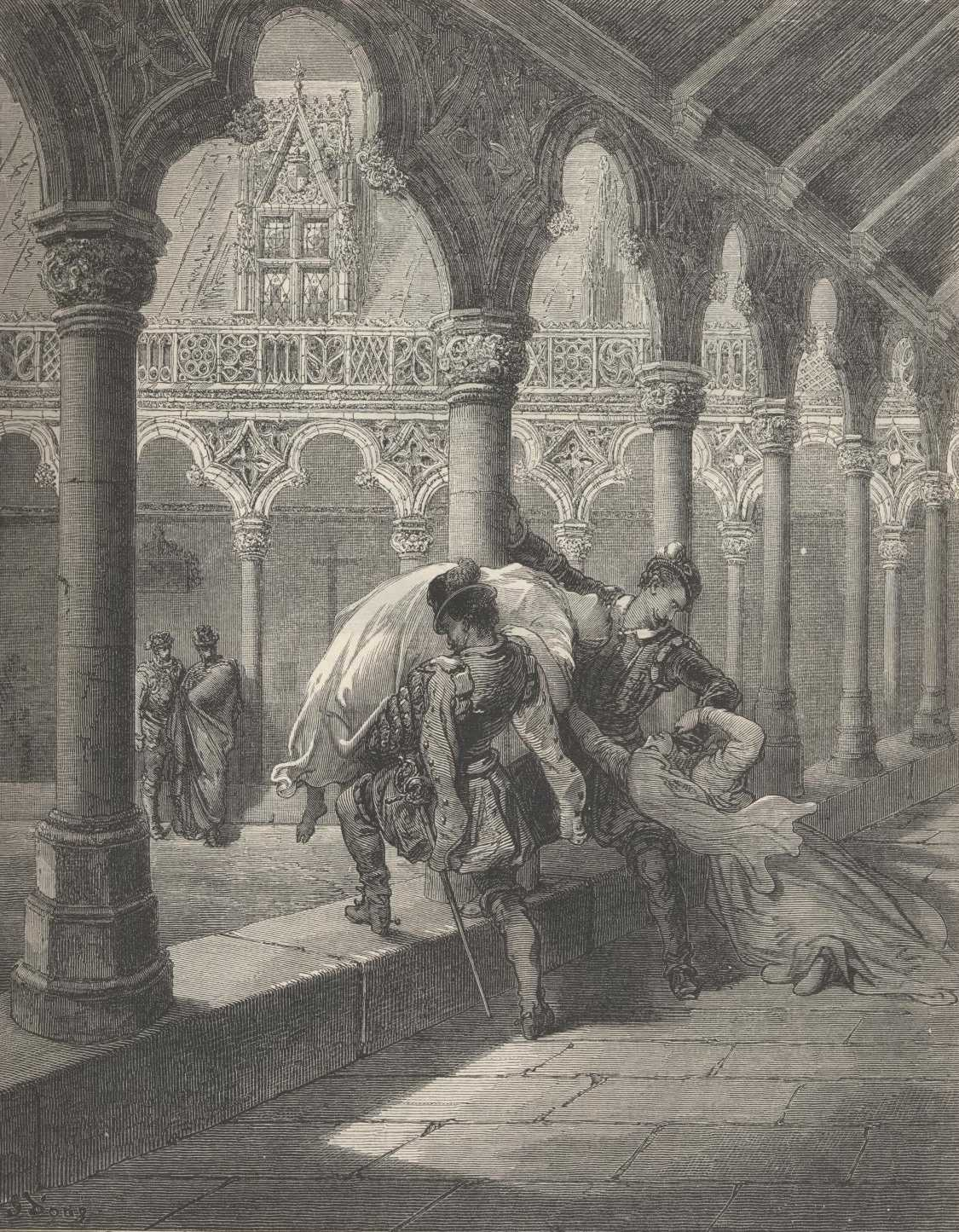 Don Quijote (Don Quixote) illustration by Paul Gustave Louis Christophe Doré.